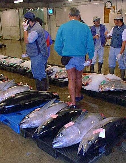 Fish auction in Hawaii (year 2000).